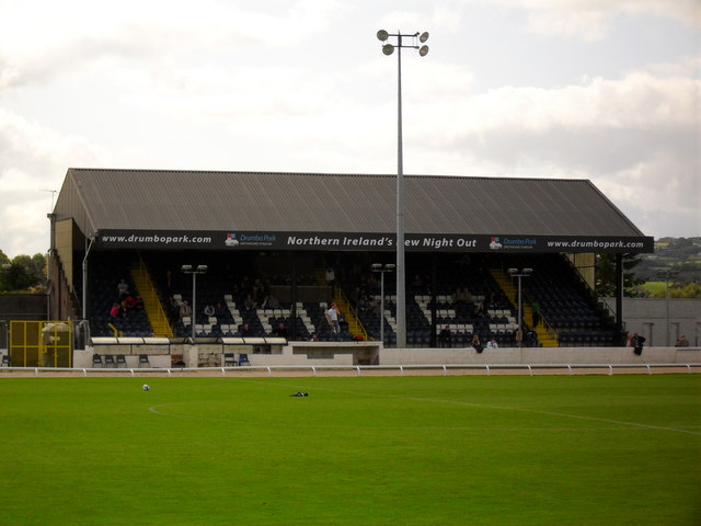 Stand, New Grosvenor StadiumThis is the stand used by fans of Lisburn Distillery F.C. ("The Whites"). When being used for a football match, the arena is called the 'New Grosvenor Stadium' - a reminder of Distillery F.C.'s beginnings on Belfast's Grosvenor Road. As a greyhound track - it's principal use - it's known as 'Drumbo Park'. Confusingly many still call it 'Ballyskeagh' - the townland in which it is situated.